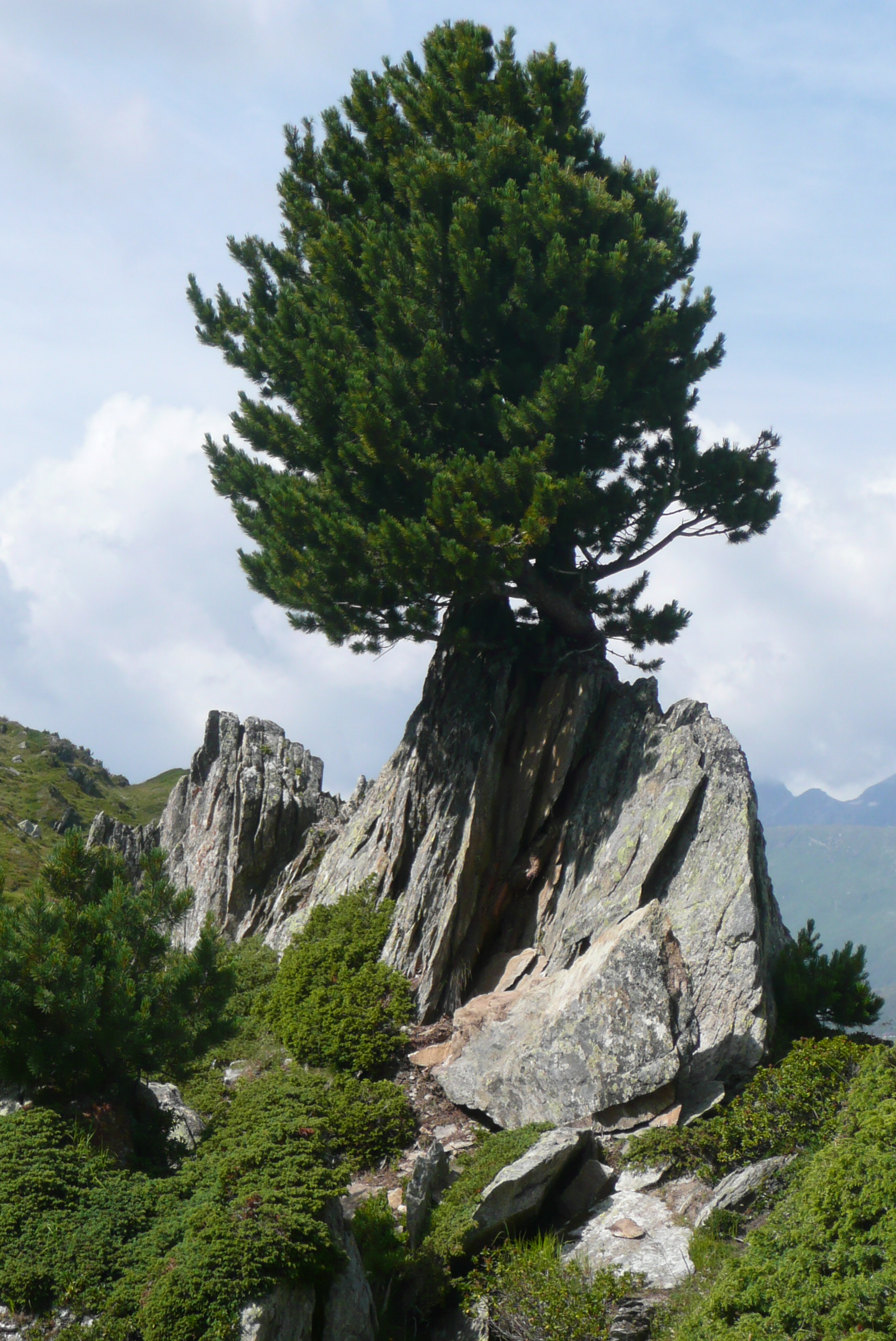 Swiss Pine Pinus cembra on a rock at Aletschwald, Riederalp, Switzerland